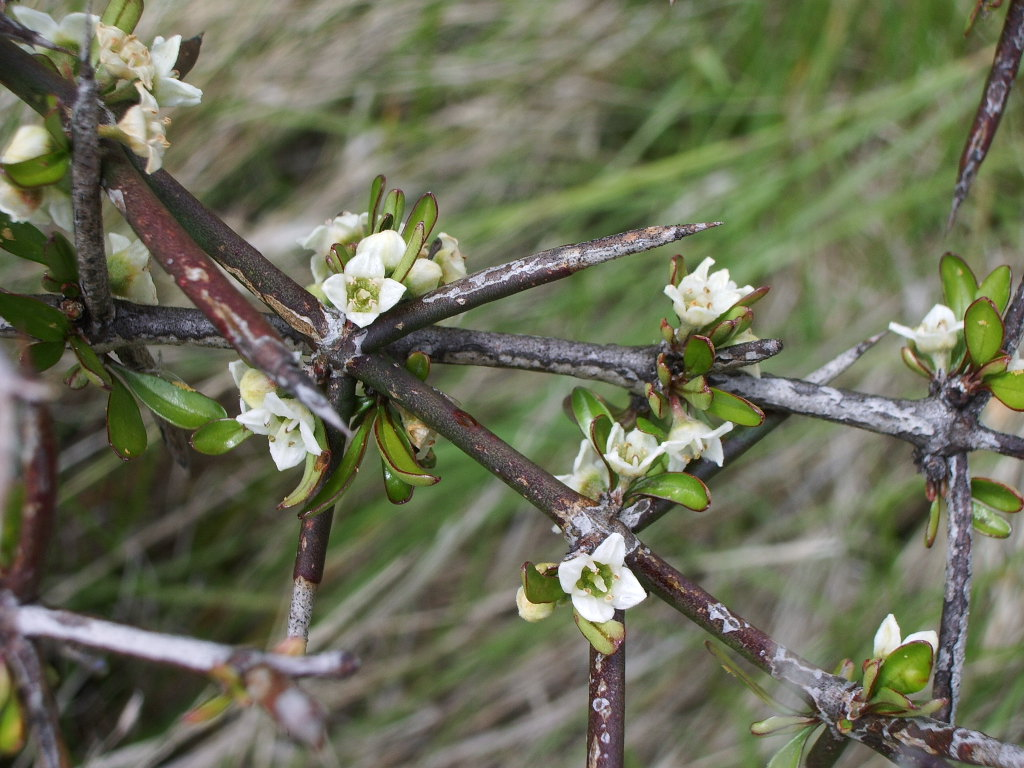 Matagouri (Discaria toumatou), New Zealand